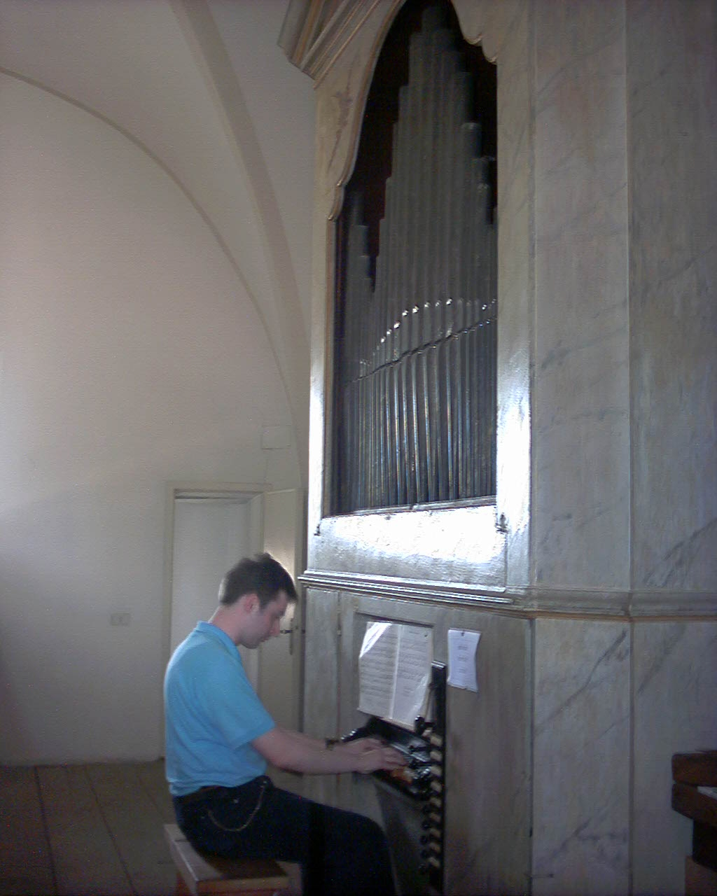 Callido church organ of Santa Maria dei Sabbioni church in Rovigo